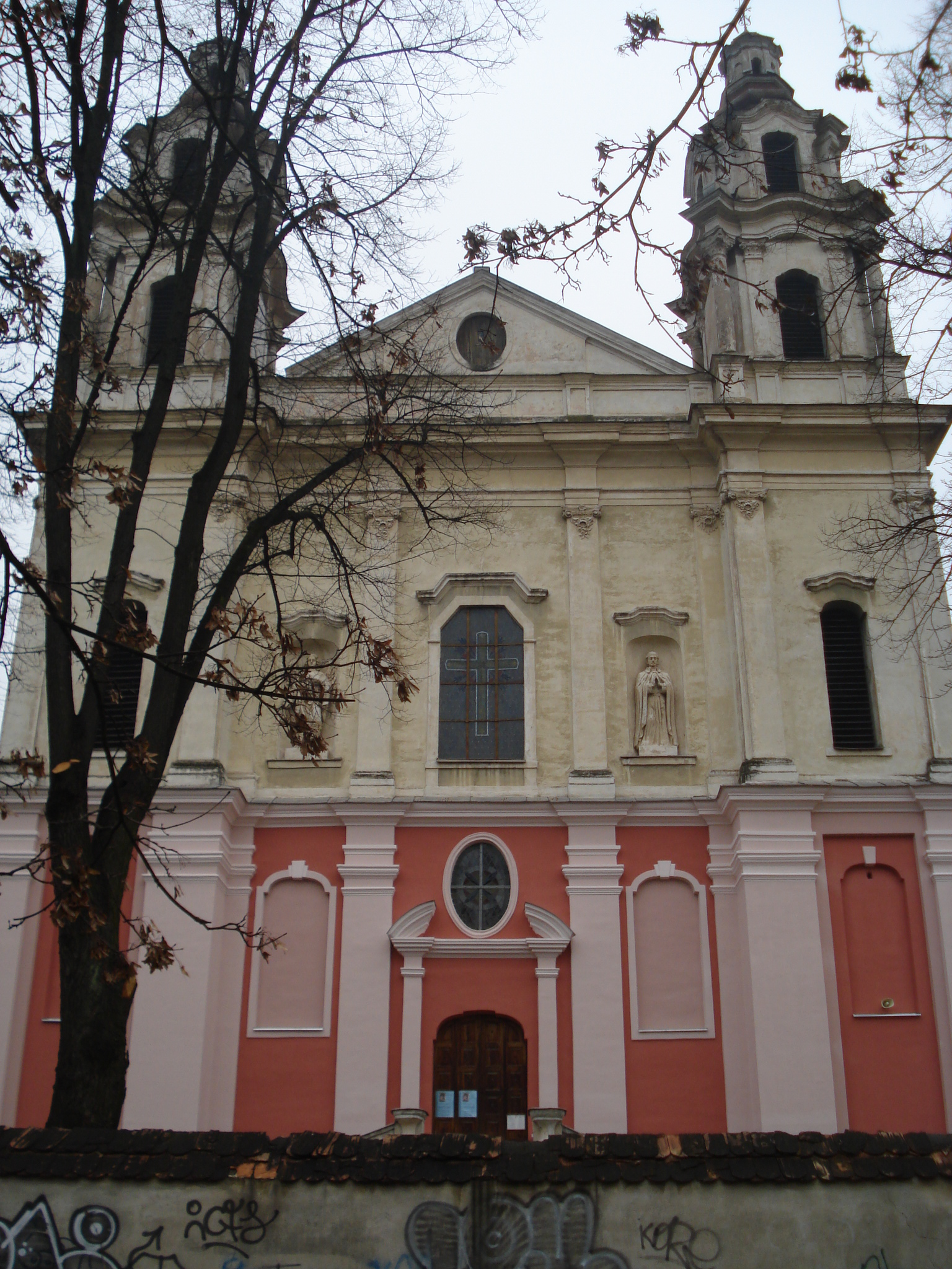 The Church of the St. Raphael after the renewing of the main facade